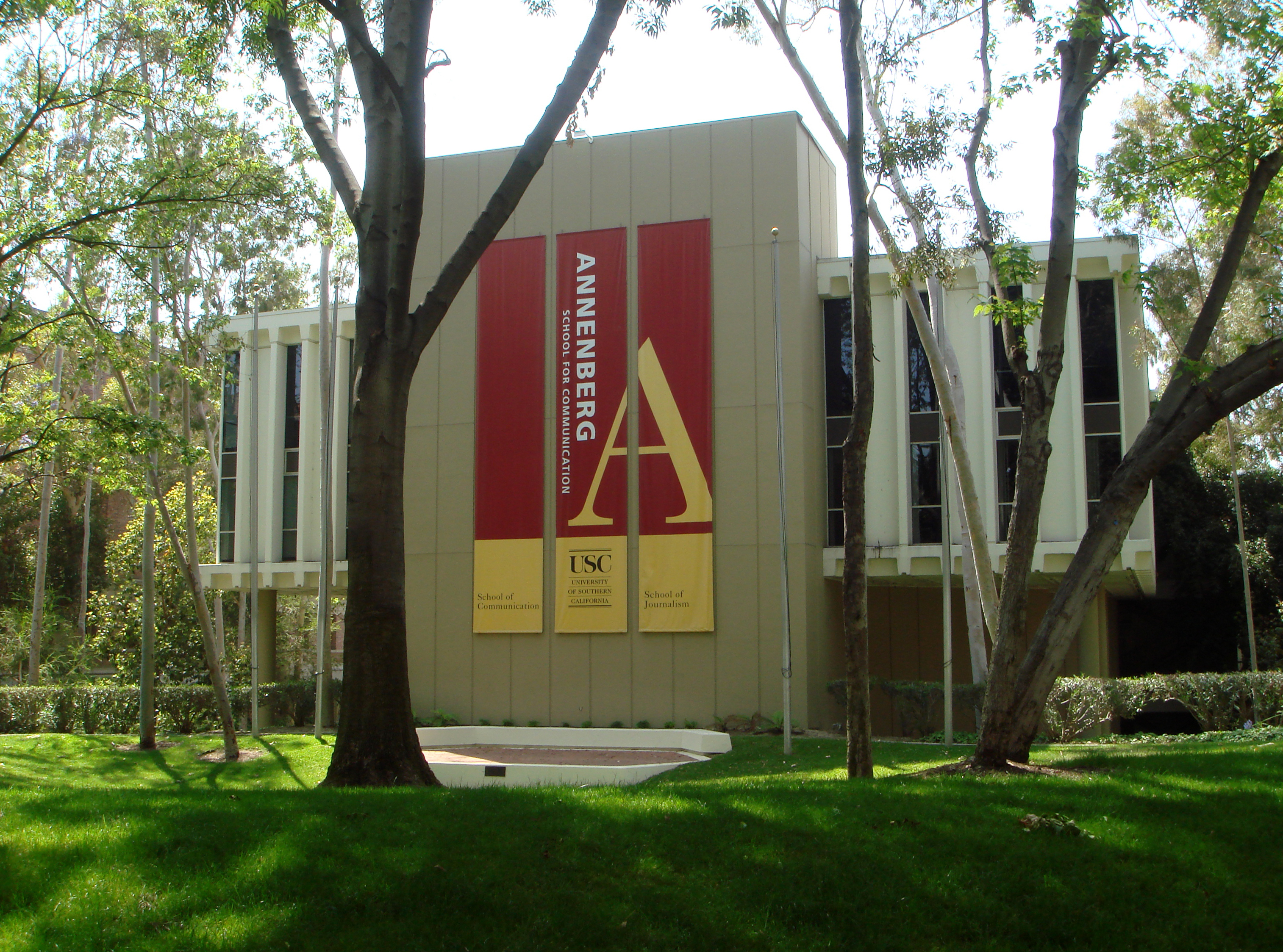 Founder's Park and the USC Annenberg School for Communication and Journalism building. At the University of Southern California, Los Angeles, California.